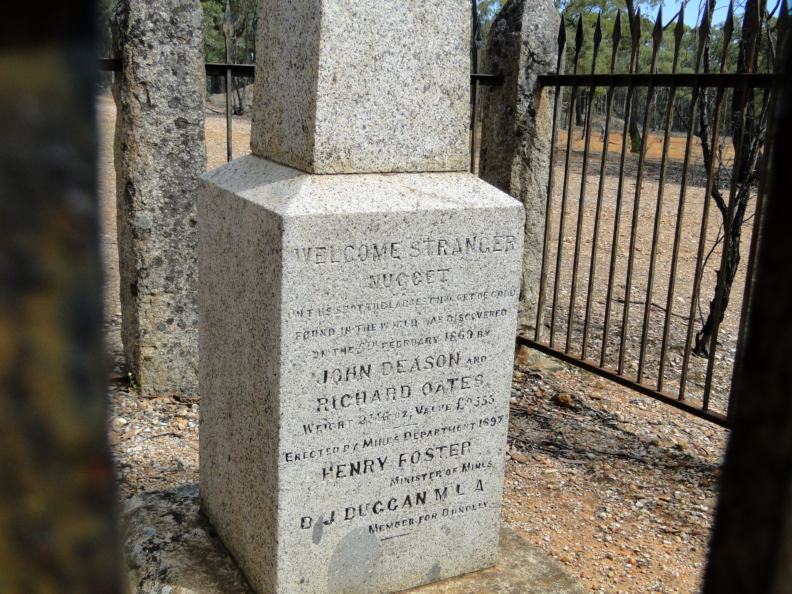 Detail of the inscription on the Welcome Stranger monument, at Moliagul, Victoria, marking the site of the biggest gold nugget ever found.